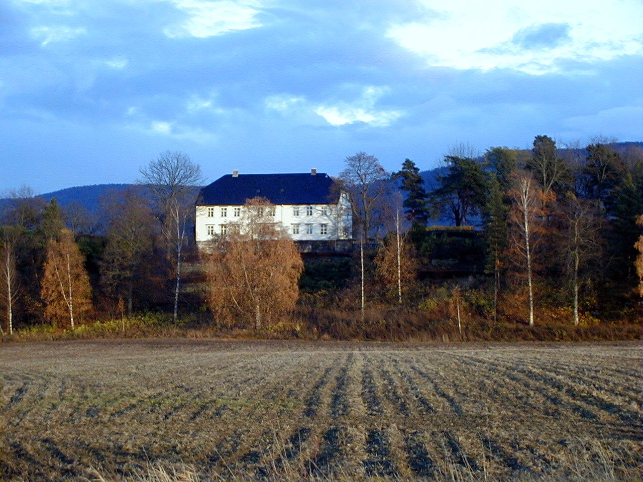 Stein gård i Hole kommune på Ringerike i Buskerud county (fylke) (The famous farm Stein in Hole at Ringerike, Norway, known from the sagas of Snorri Sturlasson to be the chieftain seat of King Halvdan the Black during the 9th century).